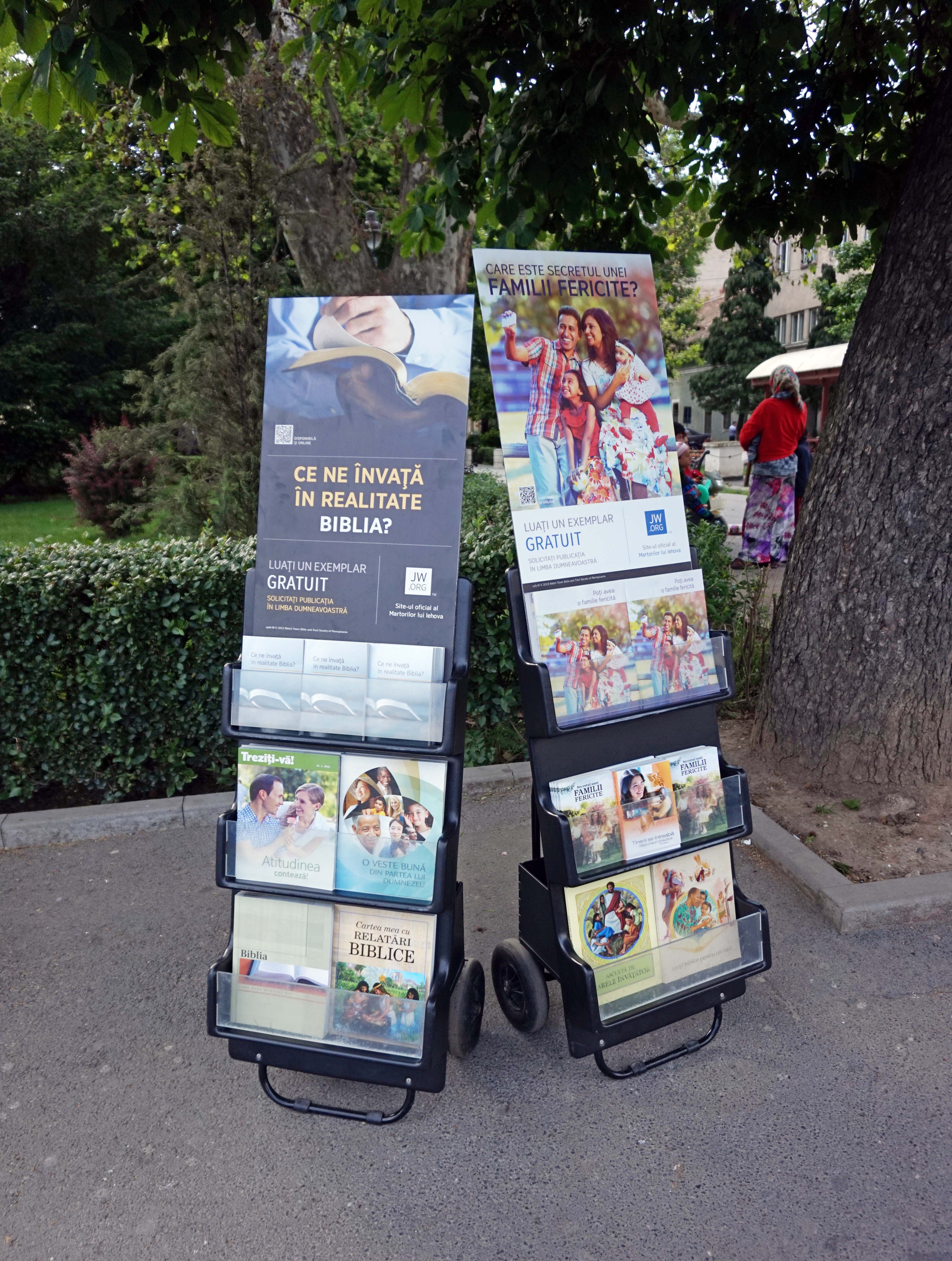 Jehovah's Witnesses material in Sibiu, Romania This photograph was taken with a Sony Alpha a5000.